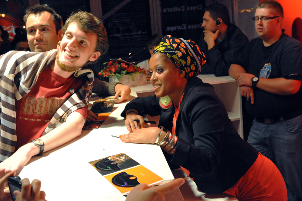 Sara Tavares signing her latest record in Warszawa in September 2011.